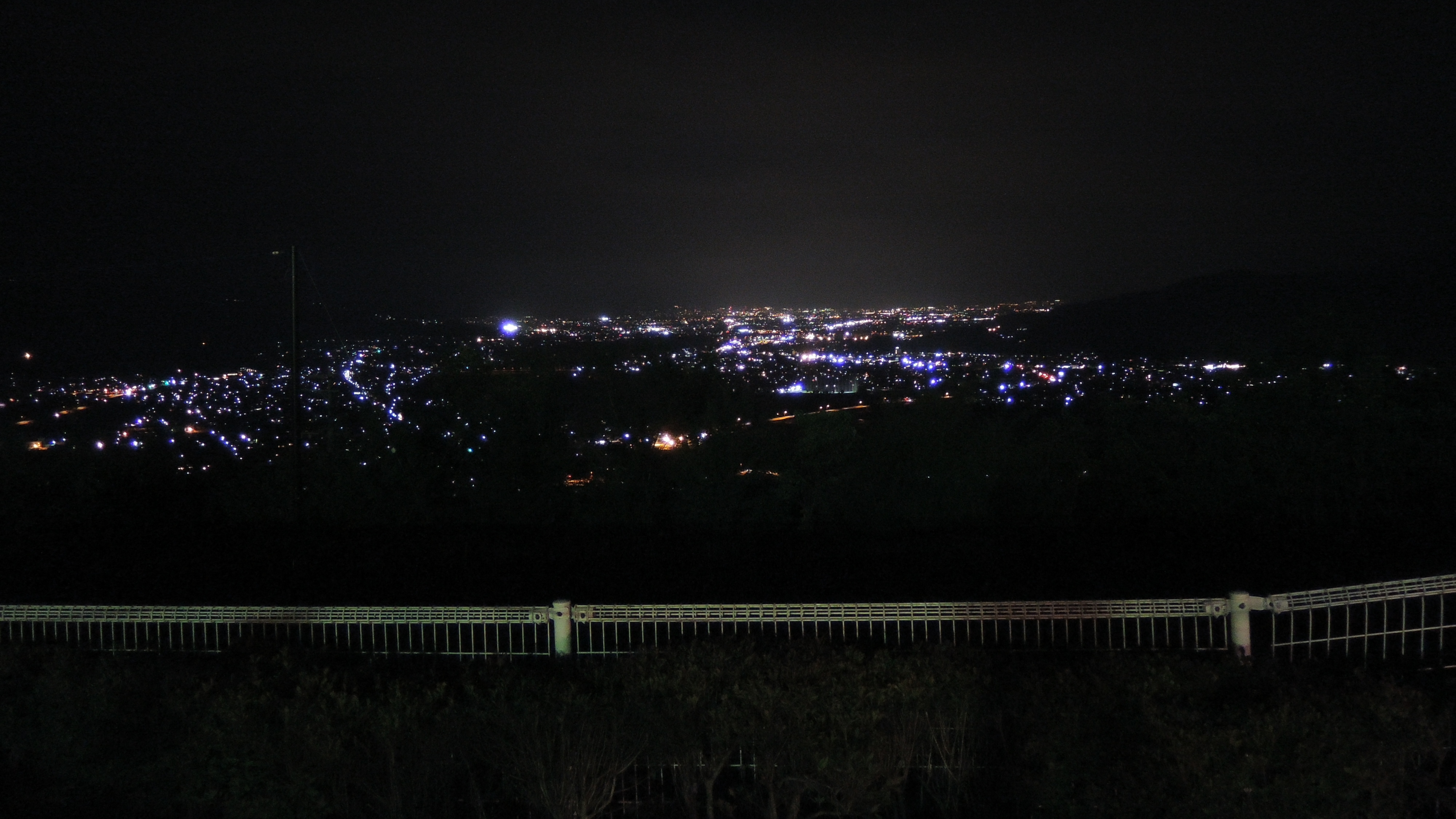 Night view from Obasute Service Area nobori ,Nagano prefecture,Japan